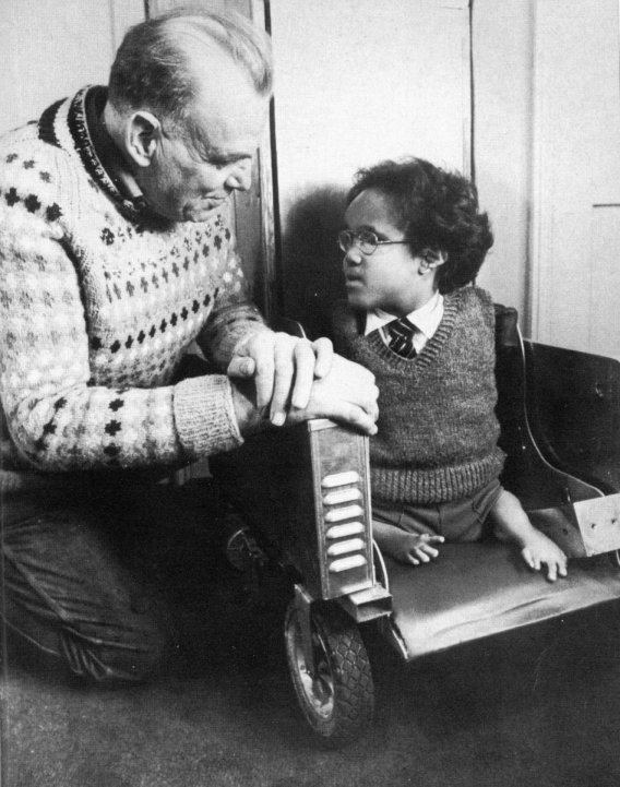 Photograph of Terry Wiles (right) who was born with phocomelia due to thalidomide